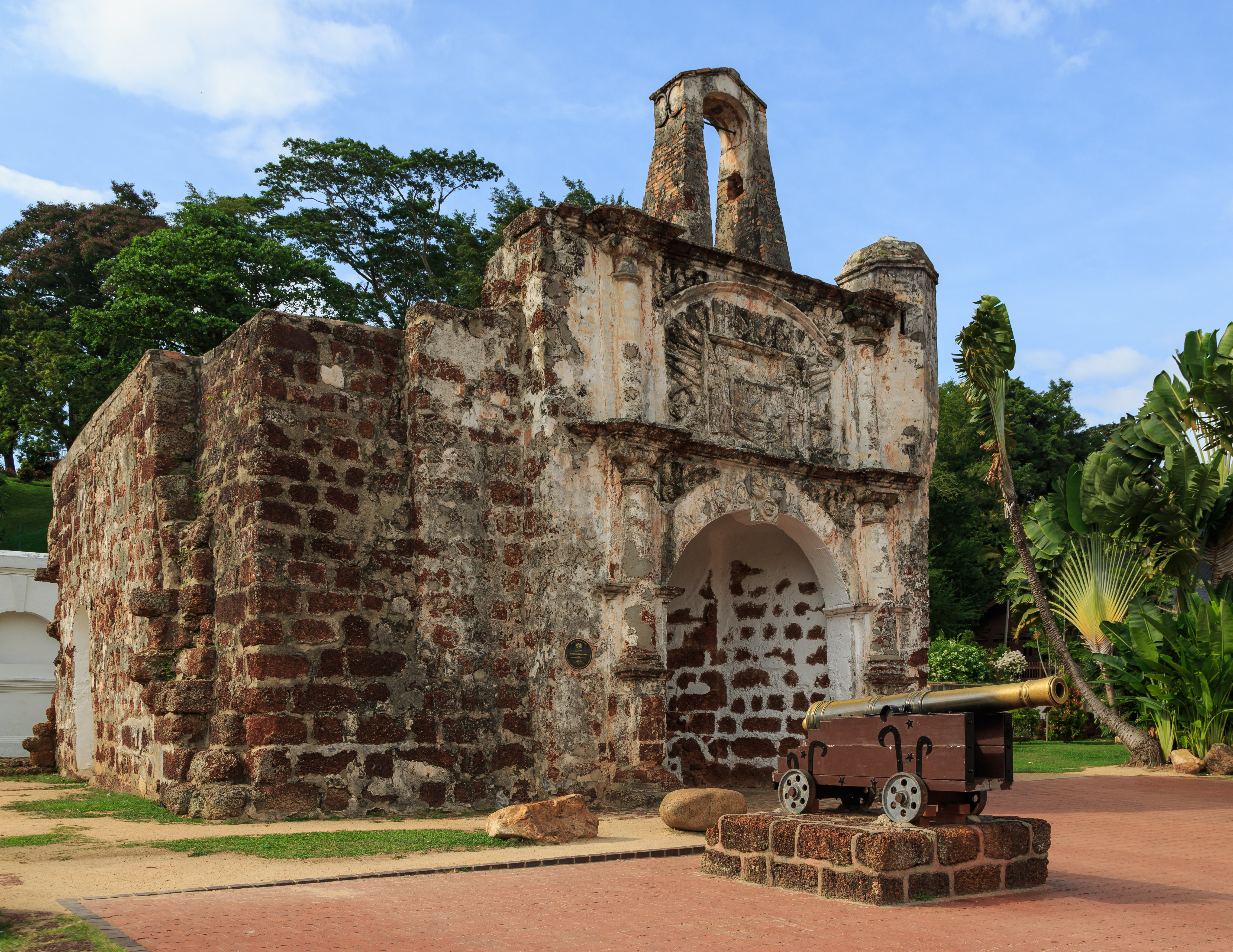 Malacca City, Malaysia: A Famosa, or "The Famous" in Portuguese, is a fortress located in Malacca, Malaysia. It is among the oldest surviving European architectural remains in Asia